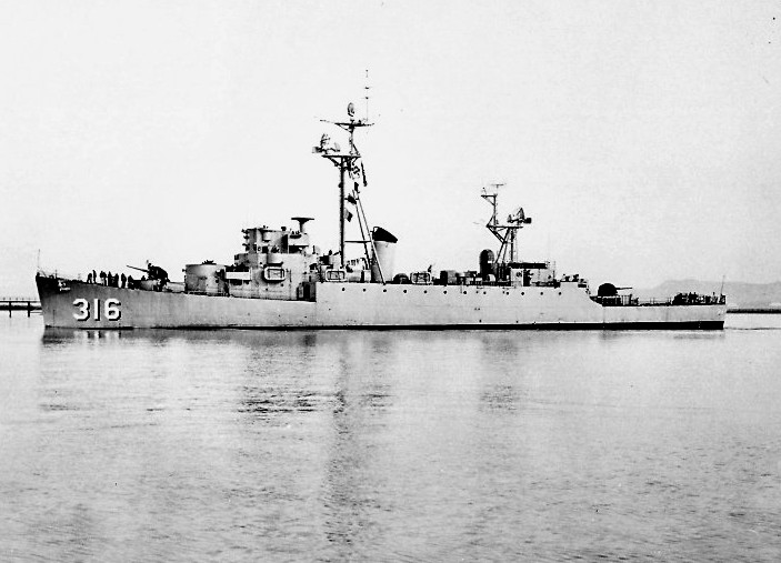 The U.S. Navy Edsall-class destroyer escort radar picket ship USS Harveson (DER-316) off the Mare Island Naval Shipyard, San Francisco, California (USA), on 9 March 1951. Harveson had been recommissioned on 12 February.